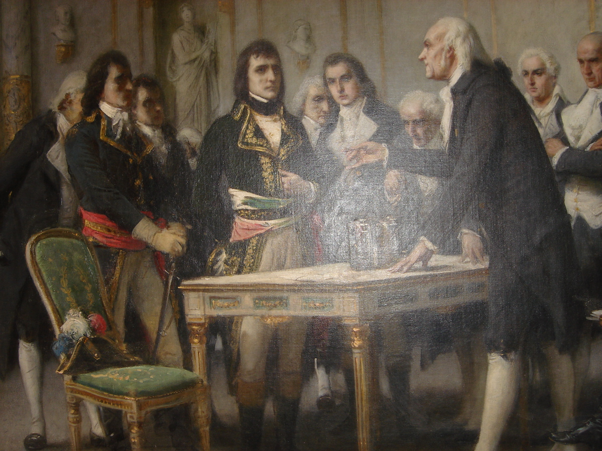 Picture of a painting by Giuseppe Bertini of Alessandro Volta demonstrating his battery to Napoleon in 1801